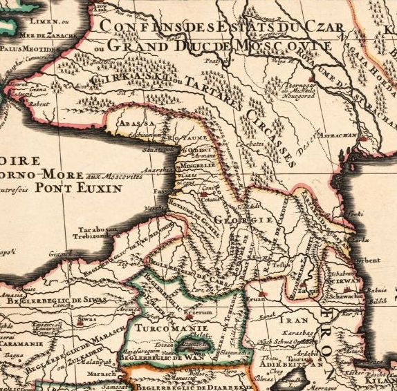 Map of Ottoman Empire and its divisions in 1600